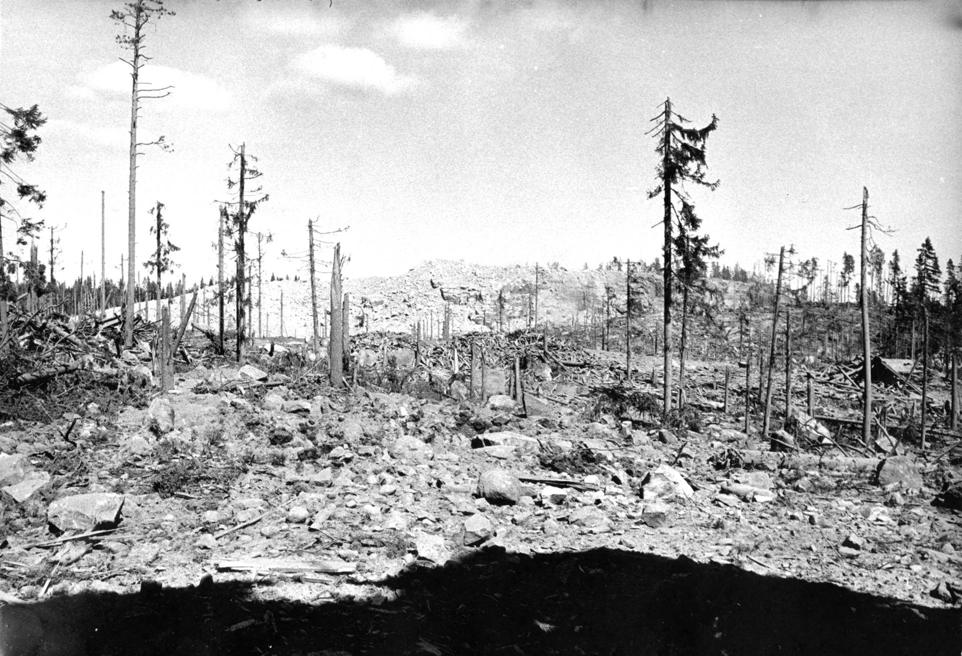 Photograph of Terrikallio hill after the explosion accident.